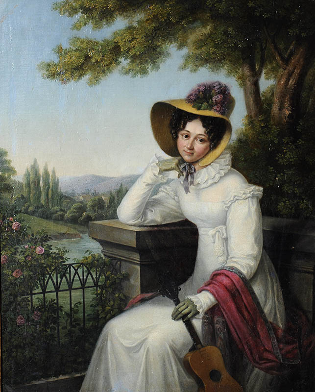 Portrait of Ekaterina Demidova (1783-1830)